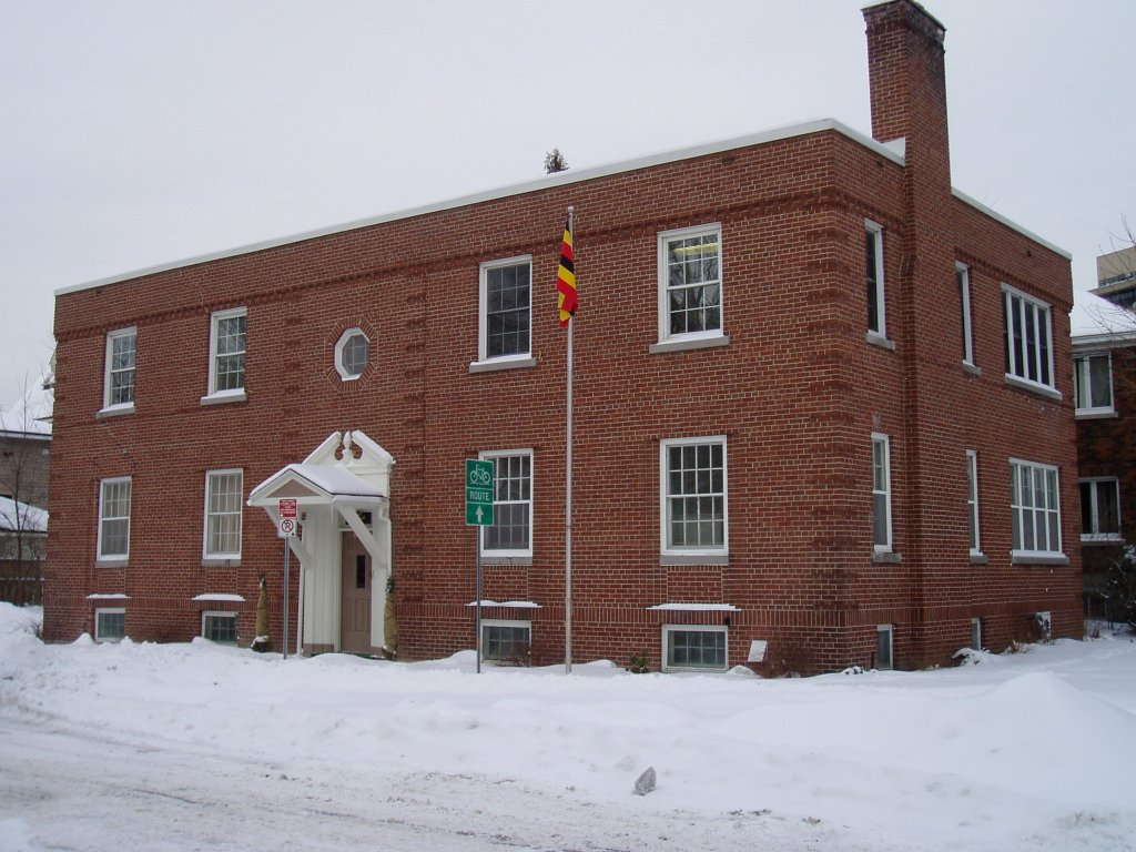 Embassy of Uganda in Ottawa, Canada